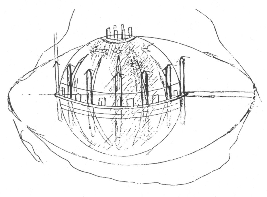 Sketch of the Concert Ball for Mysterium by Alexander Nikolajewitsch Skrjabin